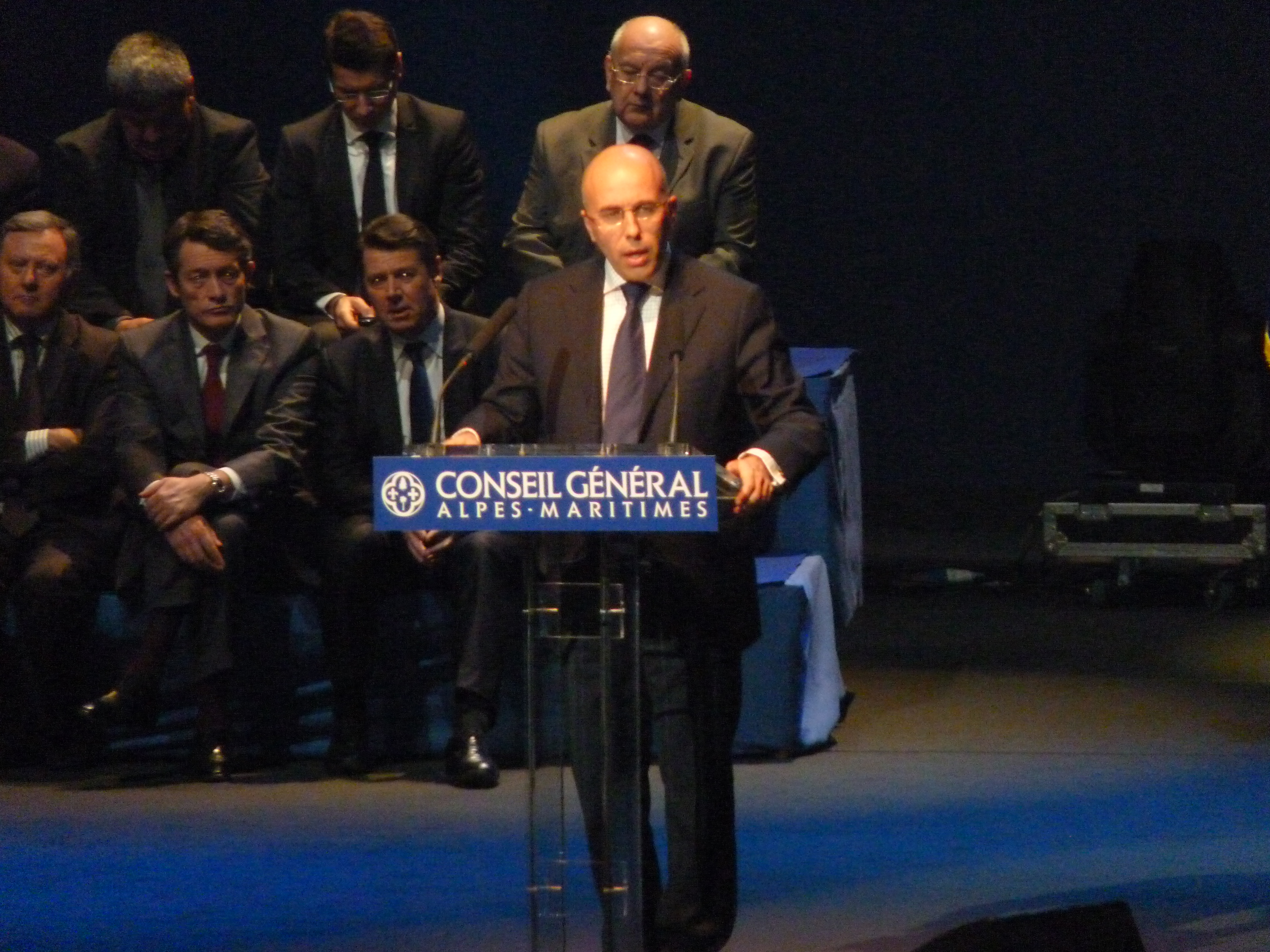 Éric Ciotti making a speech at the Palais Nikaia.